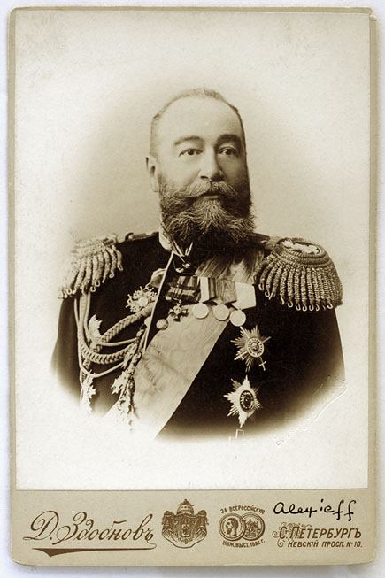 Yevgeni Ivanovich Alekseyev